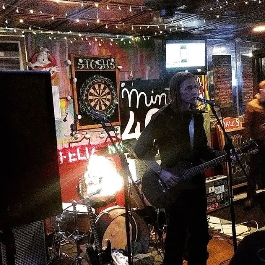 Son of the Velvet Rat at Stoshs, 30 November 2018.